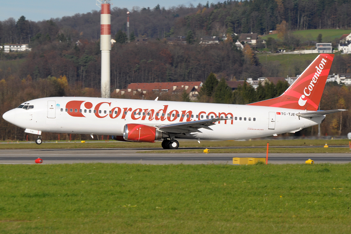 A Corendon 737-400 takes off from Zurich-Kloten